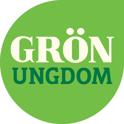 Young Greens of Sweden